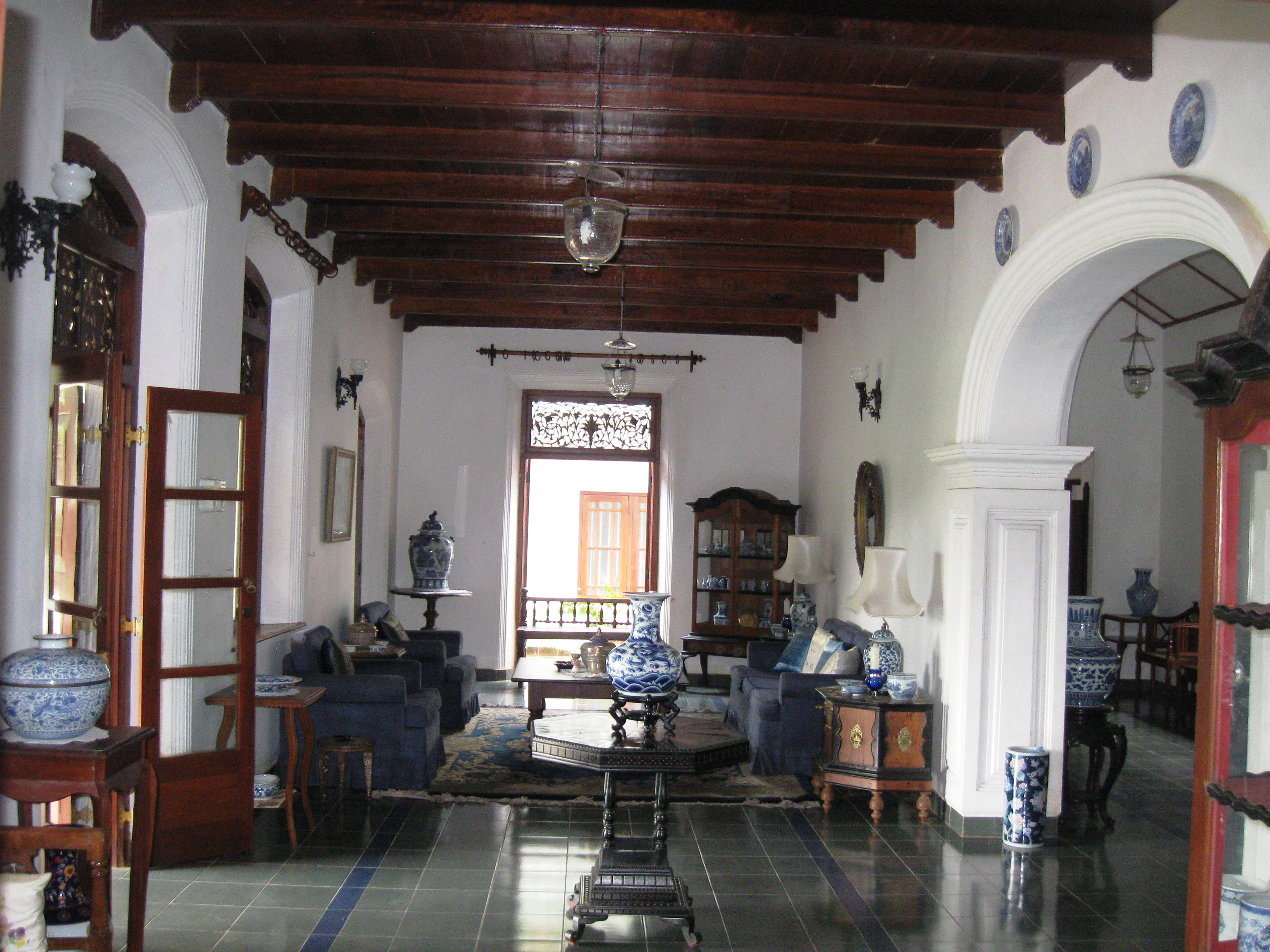 Photograph of Sitting Room at Meeduma Walauwa, Rambukkana, Sri Lanka.